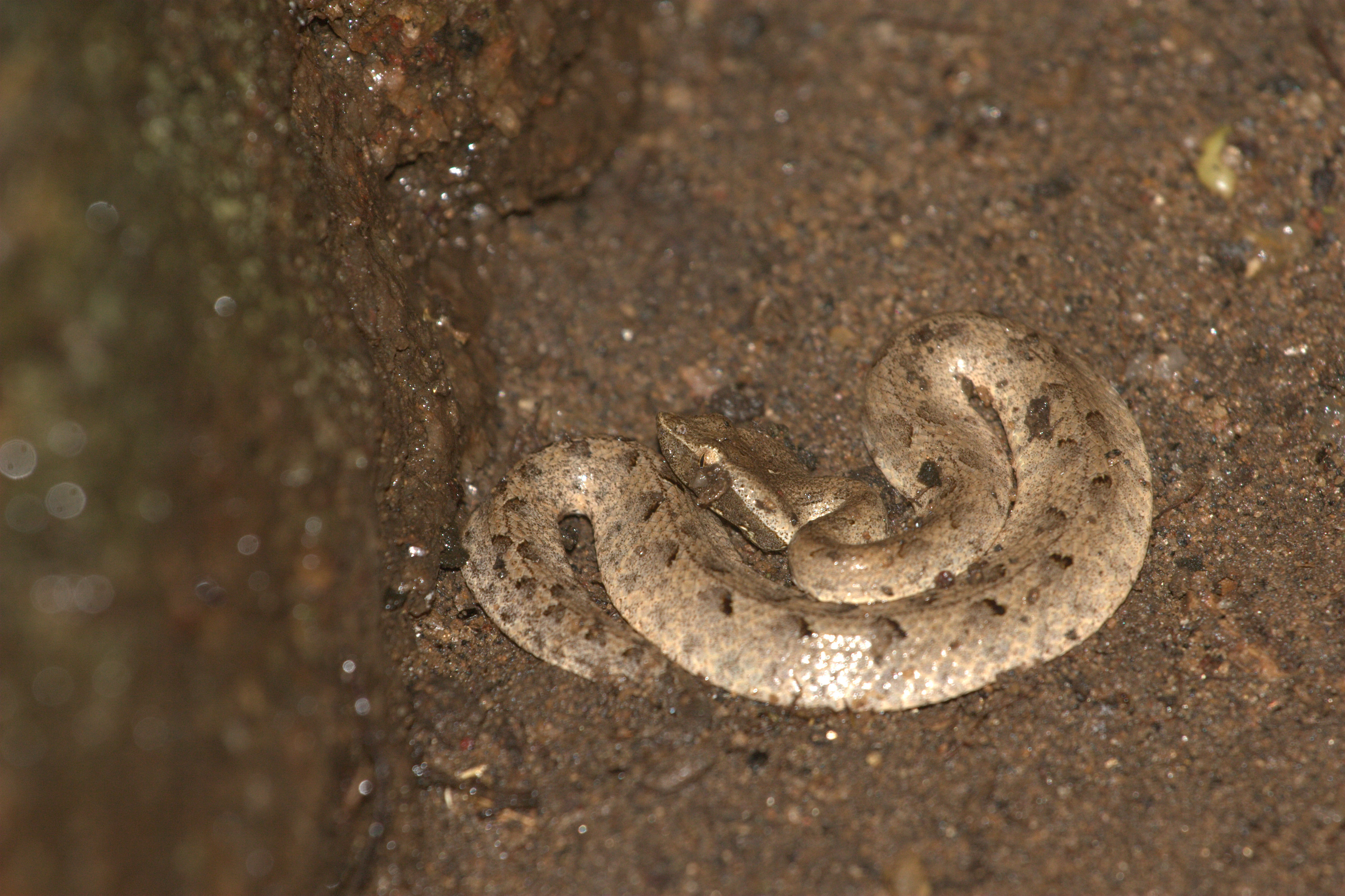 Hypnale hypnale